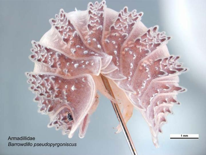 Barrowdillo pseudopyrgoniscus. Western Australia: Barrow Island, collected 24 Apr 2005